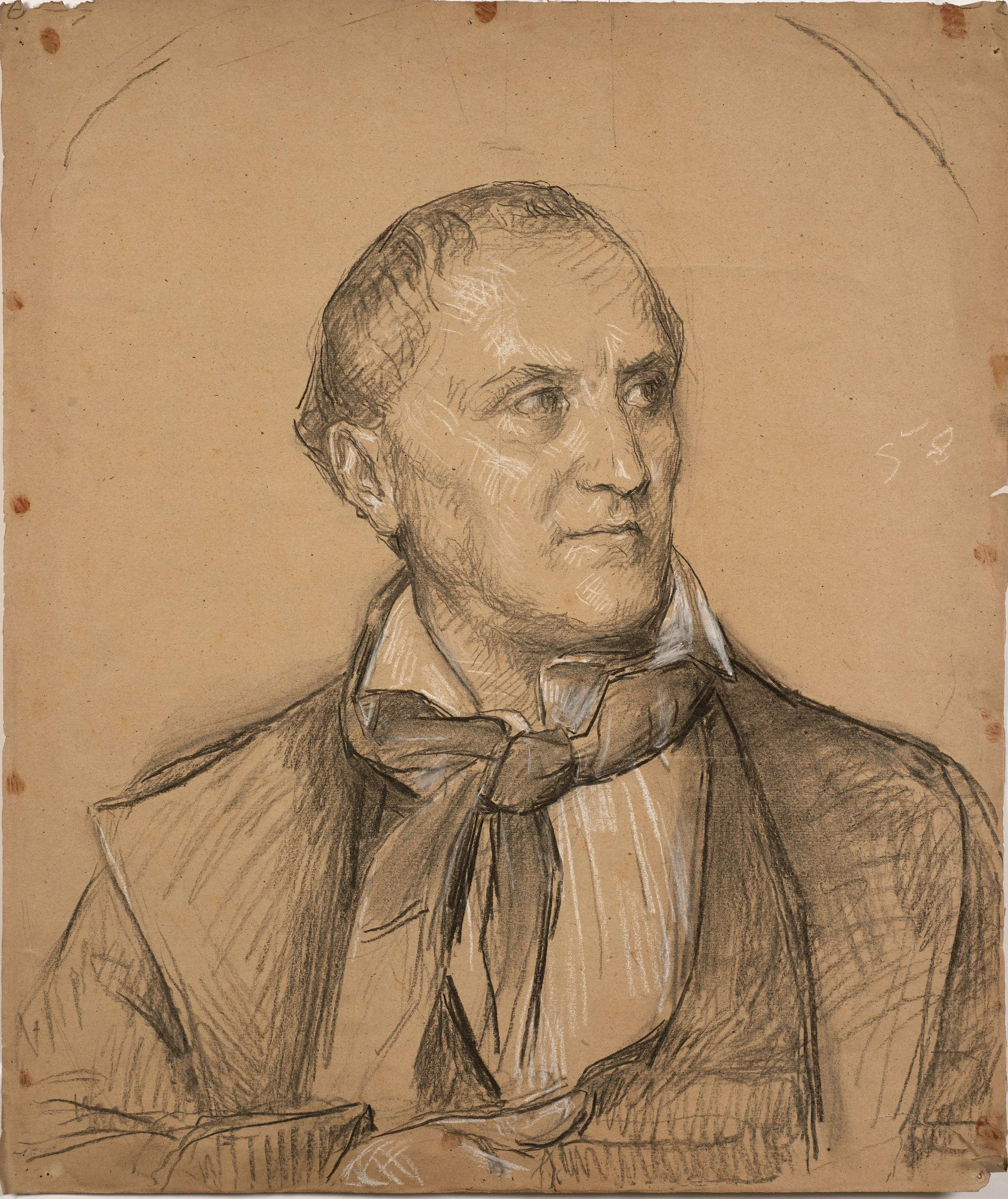 Half-length portrait of Jean-Baptiste Delestre, black white chalk, stumping, by A. Couder